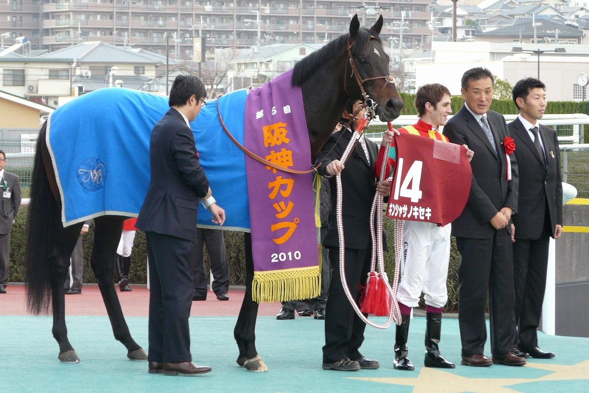 Kinshasa-no-Kiseki20101218